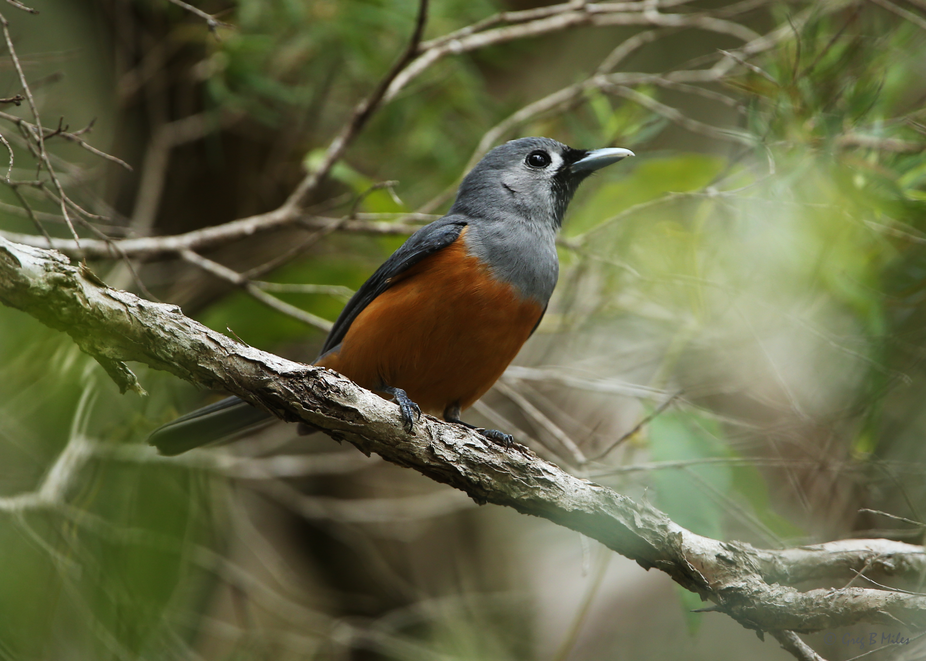 There were a pair of these feeding in the foliage near the Sailing Club on the edge of Queens Lake near Laurieton not far from where our daughter lives. It's my favourite birding spot when we visit her. I always see interesting birds there.